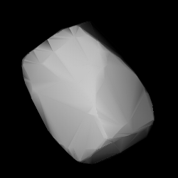 3D convex shape model of 462 Eriphyla, computed using light curve inversion techniques. J. Hanuš, J. Ďurech, M. Brož, B. D. Warner (June 2011). "A study of asteroid pole-latitude distribution based on an extended set of shape models derived by the lightcurve inversion method". Astronomy and Astrophysics 530: A134. ISSN 0004-6361. arXiv